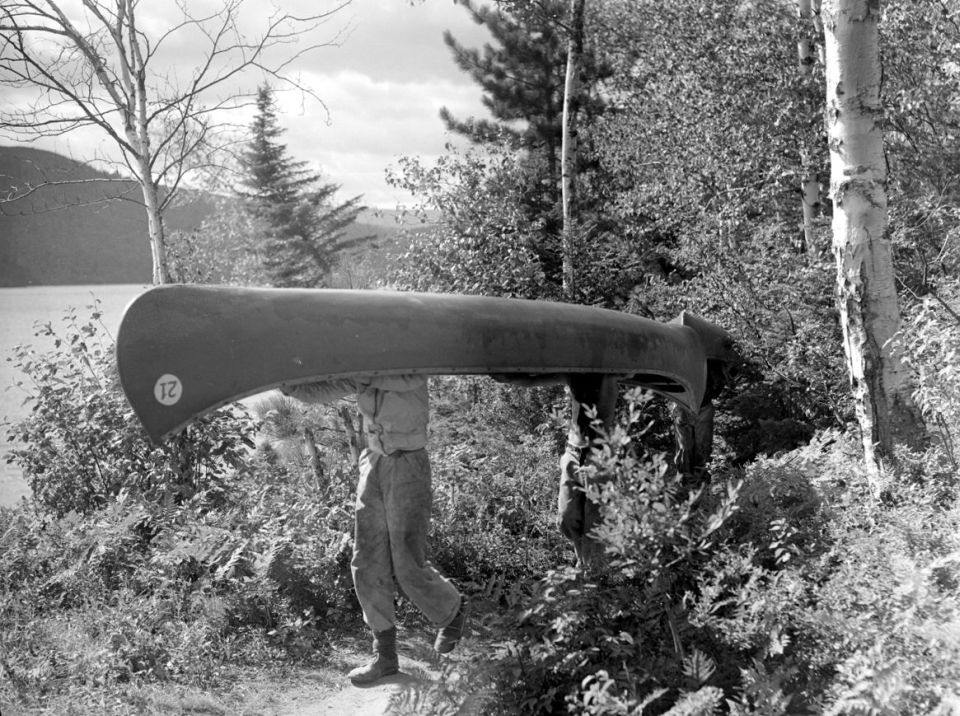 Campers of "Powter's Camp" portagent two canoes in a wooded edge of a watercourse.